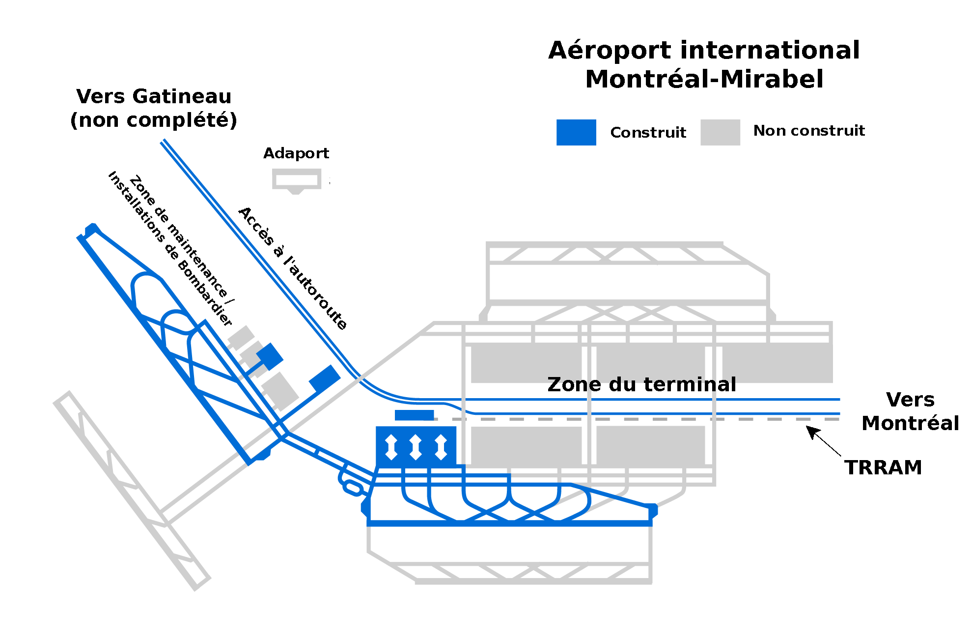 Diagram of Montréal-Mirabel International Airport Installations (built and unbuilt)